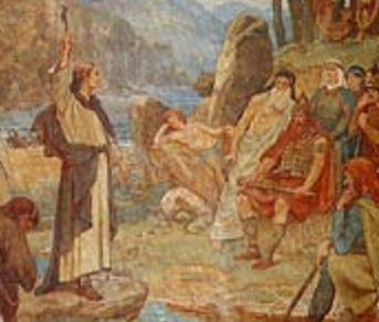 Focused shot of William Hole's imaginative 19th century depiction of Columba's "conversion" of King Bridei I of the Picts.